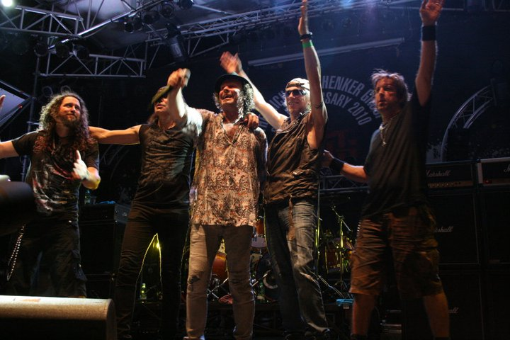 The Michael Schenker Group live in Rome, Italy on 5th August 2011